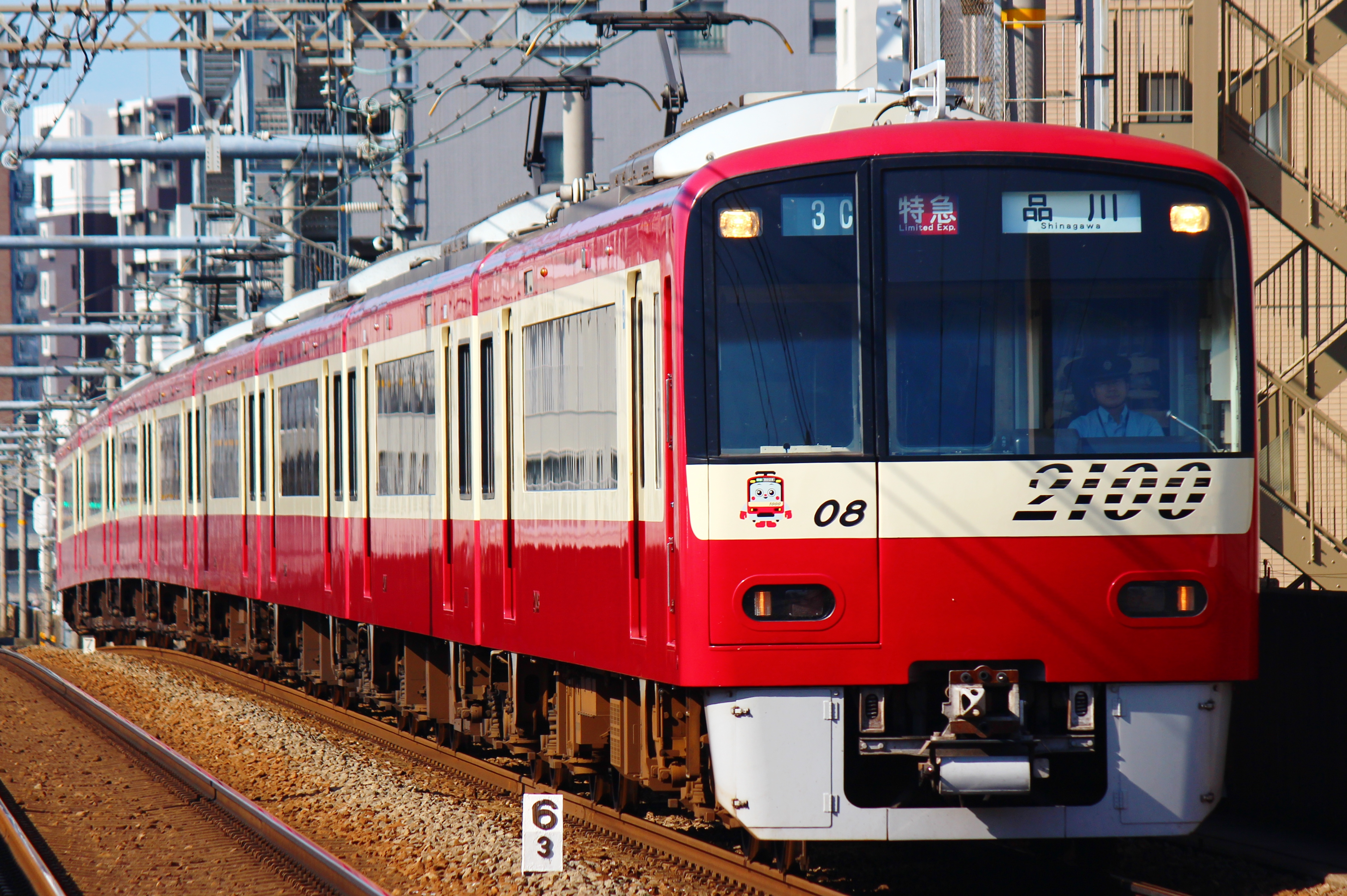 Keikyu 2100 series EMU set 2101 running toward Tachiaigawa station